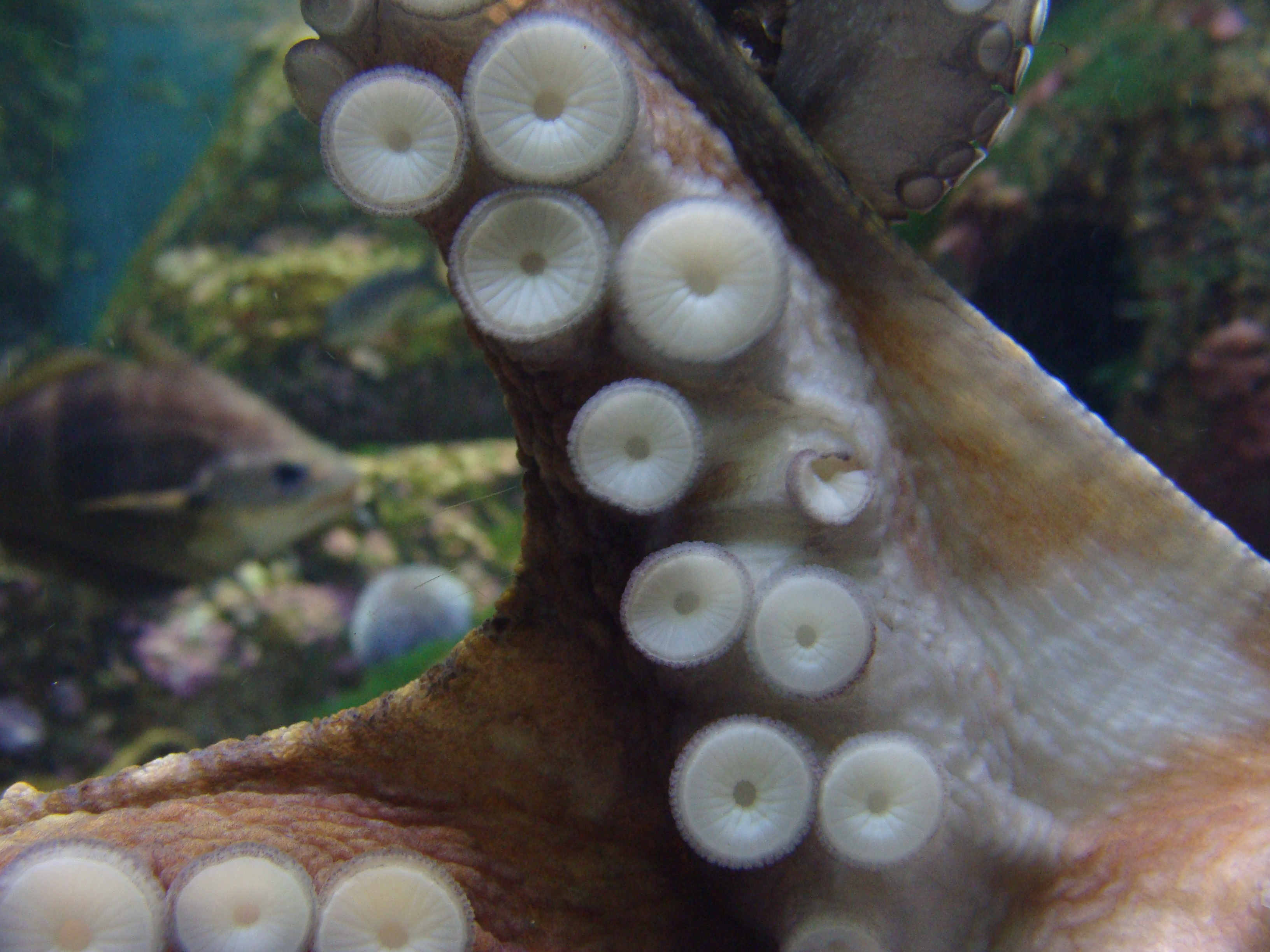 Octopus vulgaris (Octopus) in Sala Maremagnum of Aquarium Finisterrae (House of the Fishes), in Corunna, Galicia, Spain.